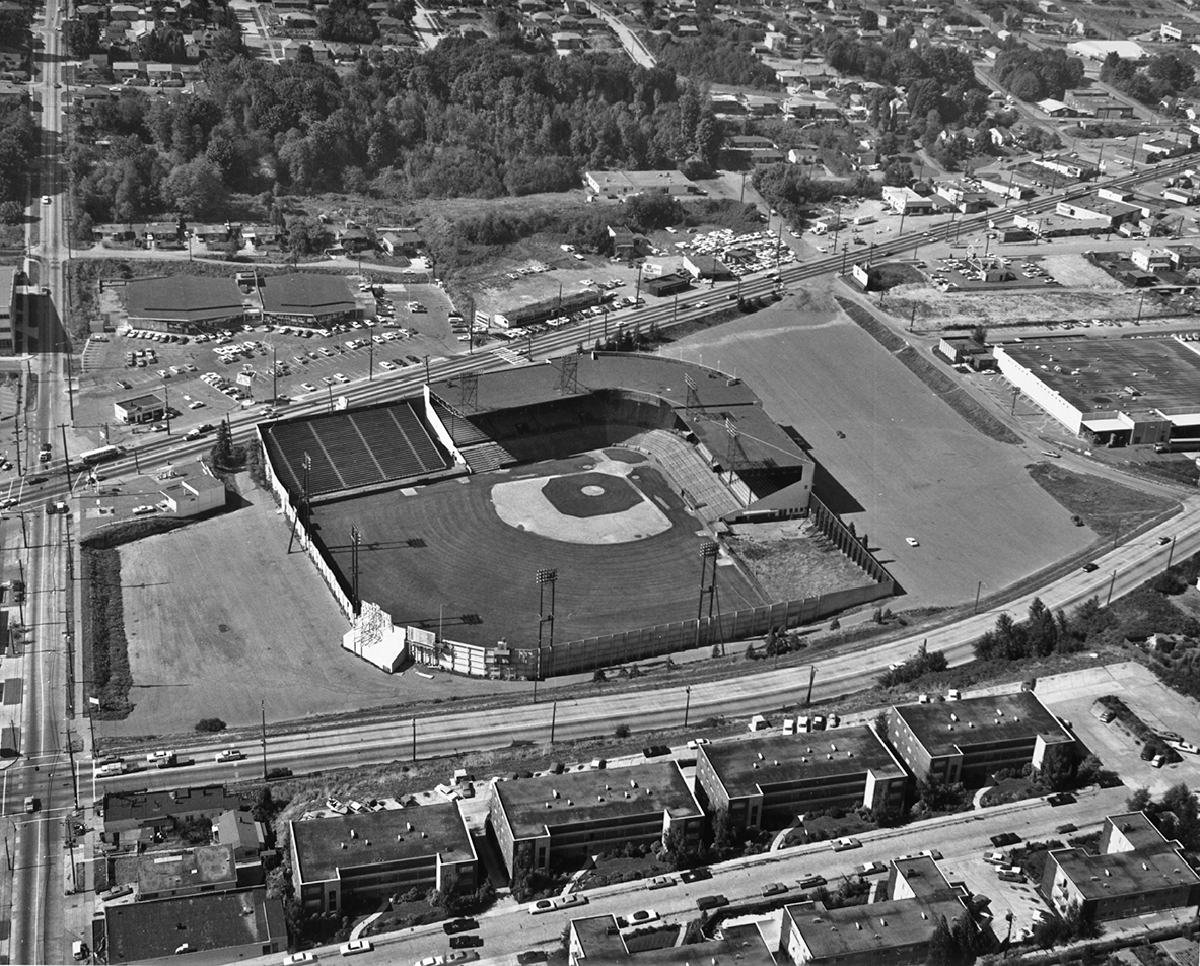 Home of the Seattle Rainiers and the Seattle Pilots. Item 63971, Records of the Office of the Mayor (Record Series 5210-01), Seattle Municipal Archives.